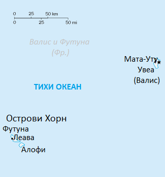 Map of Wallis and Futuna, showing islands and towns in Macedonian.